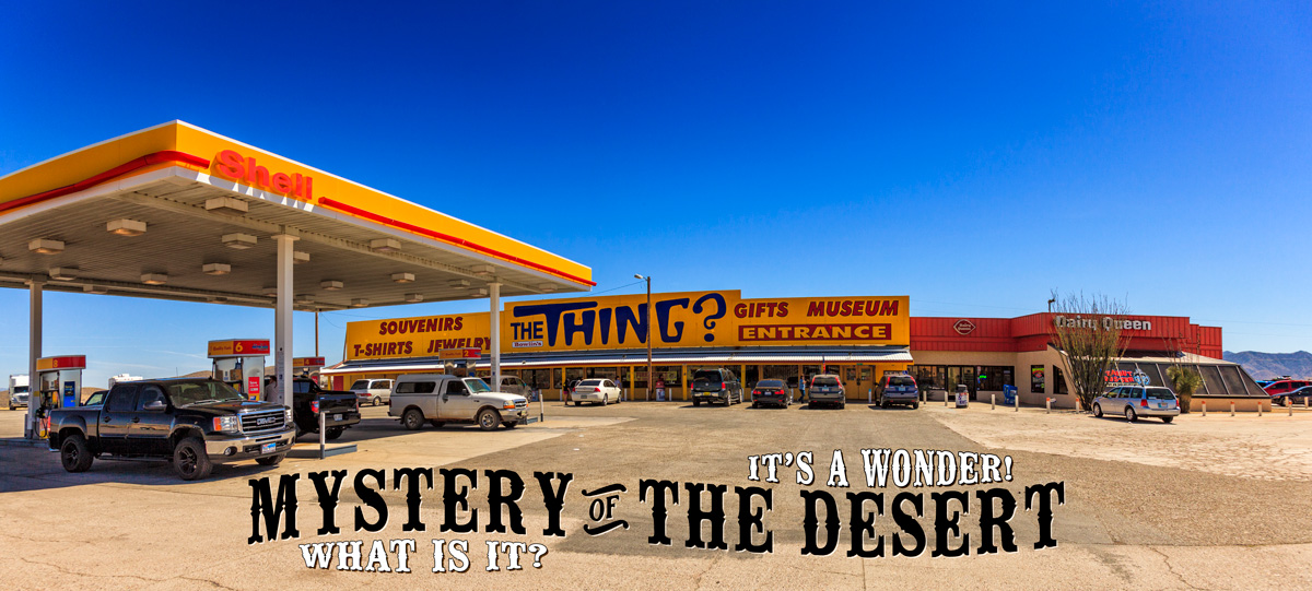 This roadside attraction is the best value for the money. Stop in and take the tour!